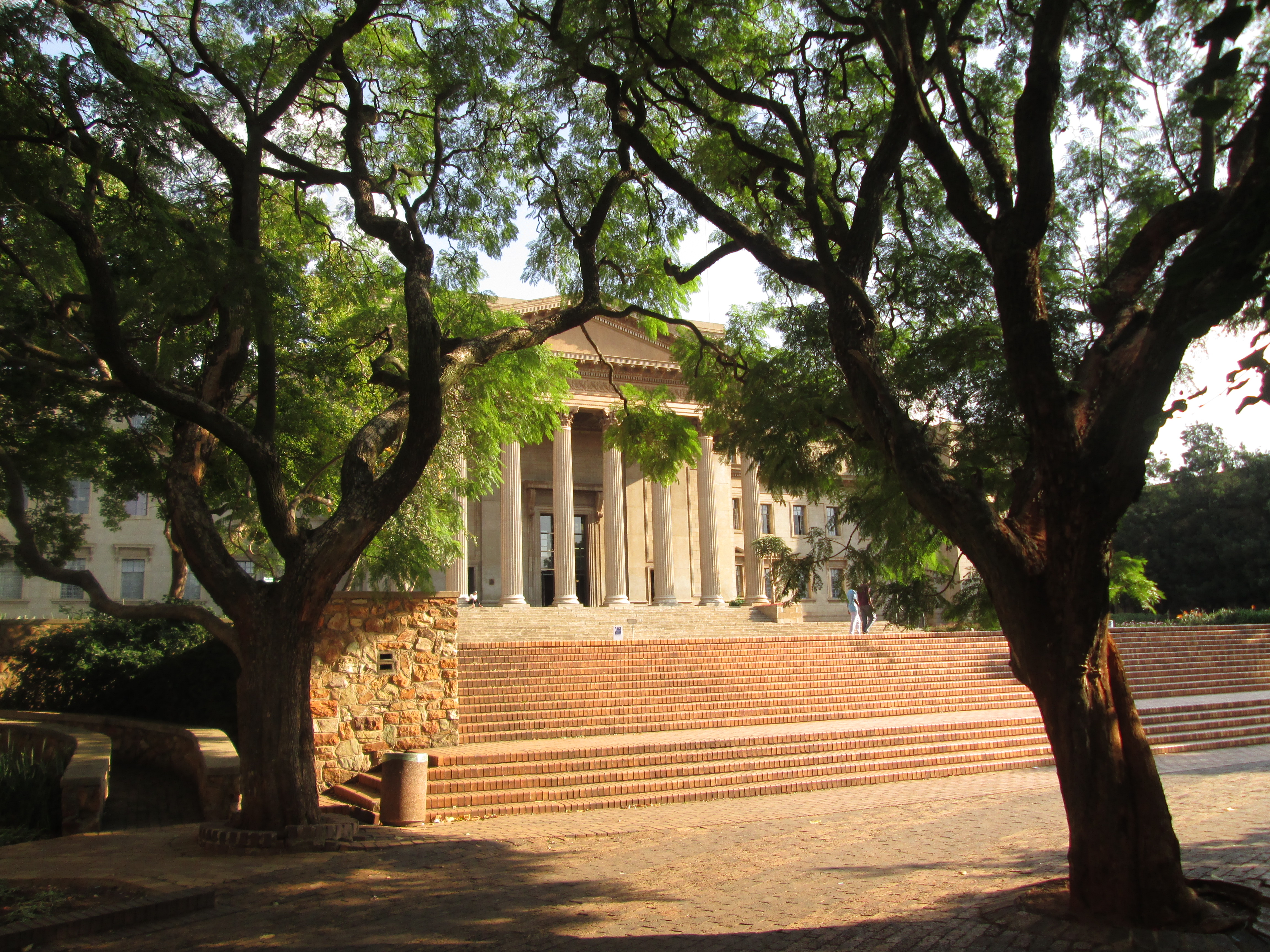 The Great Hall facade (the front section of Central Block) on the East Campus of the University of the Witwatersrand, Johannesburg, as viewed through a pair of jacaranda trees.